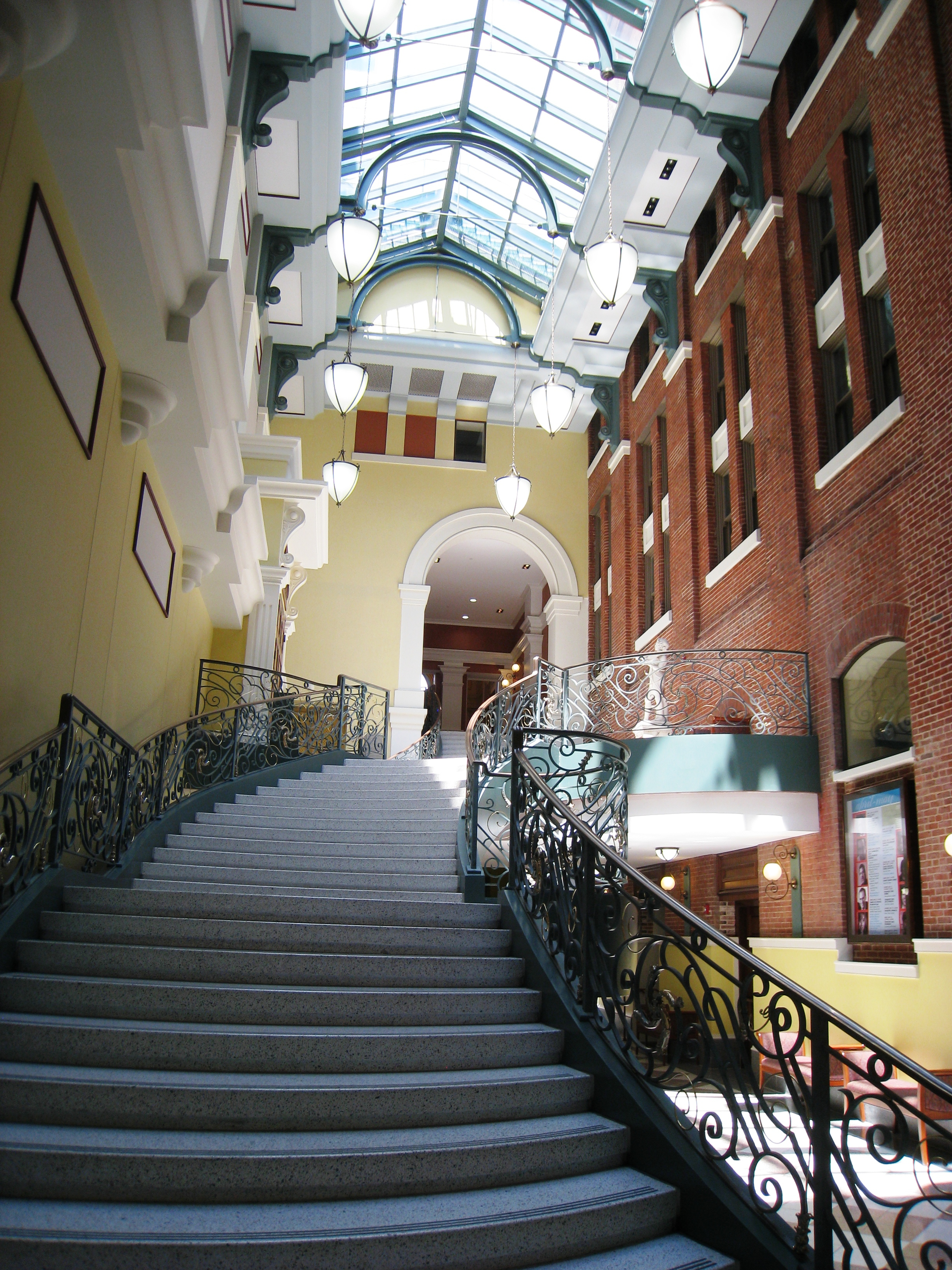 Interior stairway in the Peabody Institute, Baltimore, Maryland, USA. There were no prohibitions against photography in the institute. I took this photograph.